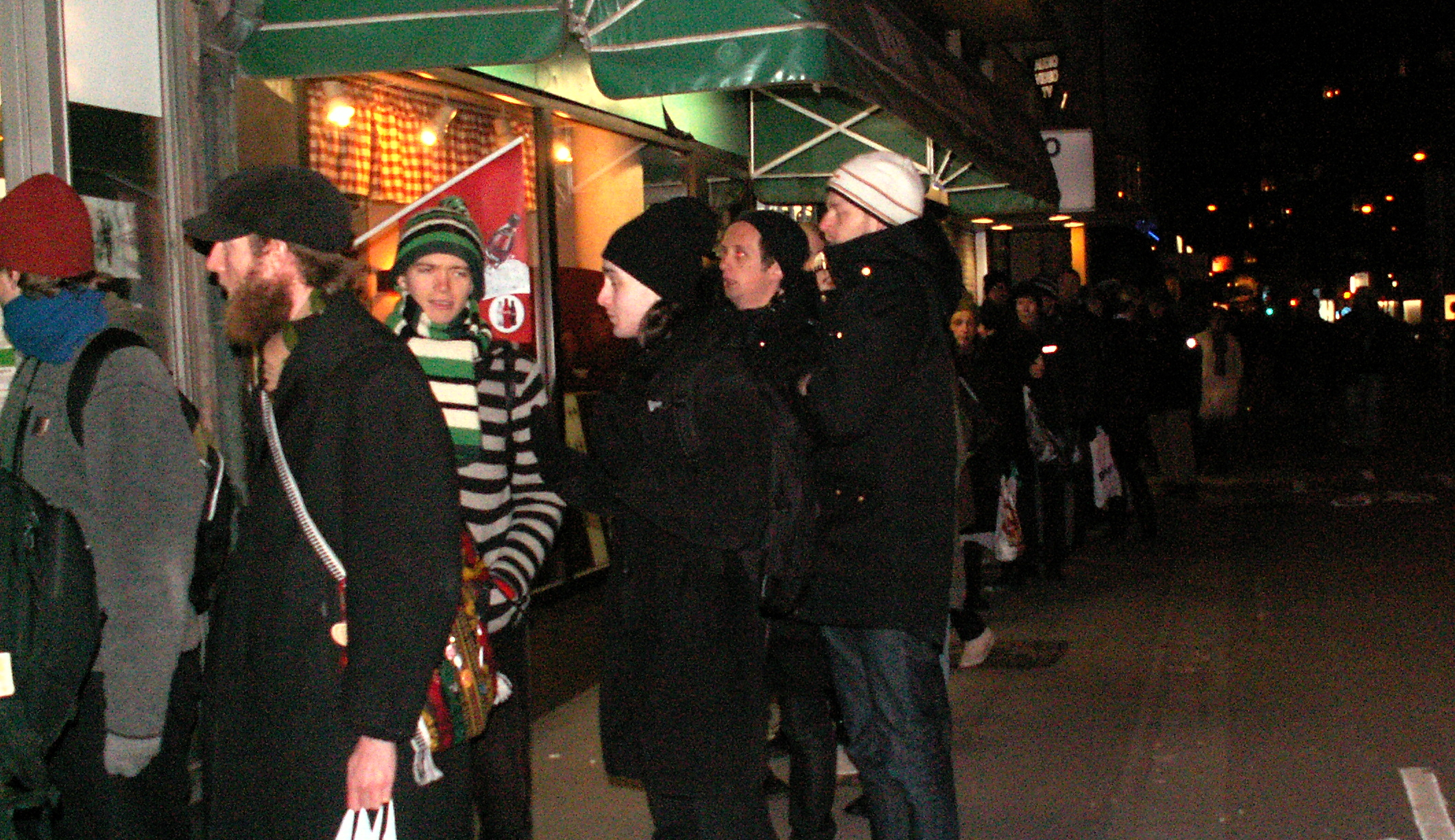 Ticket queue outside Bio Capitol (movie theatre in Göteborg), at the Swedish premiere of Nausicaä från Vindarnas dal by Hayao Miyazaki, 17 February 2009.